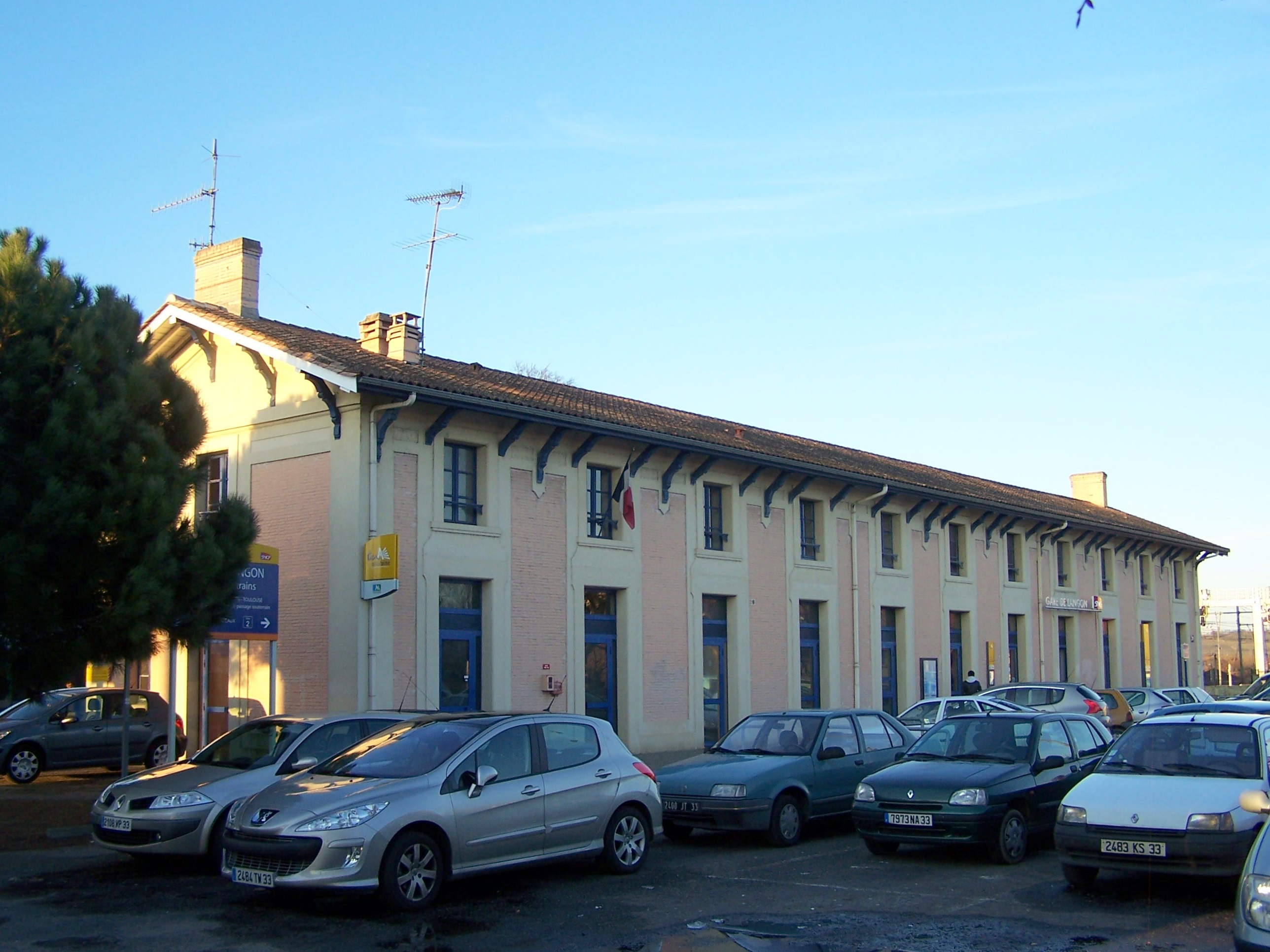 Train station of Langon (Gironde, France)